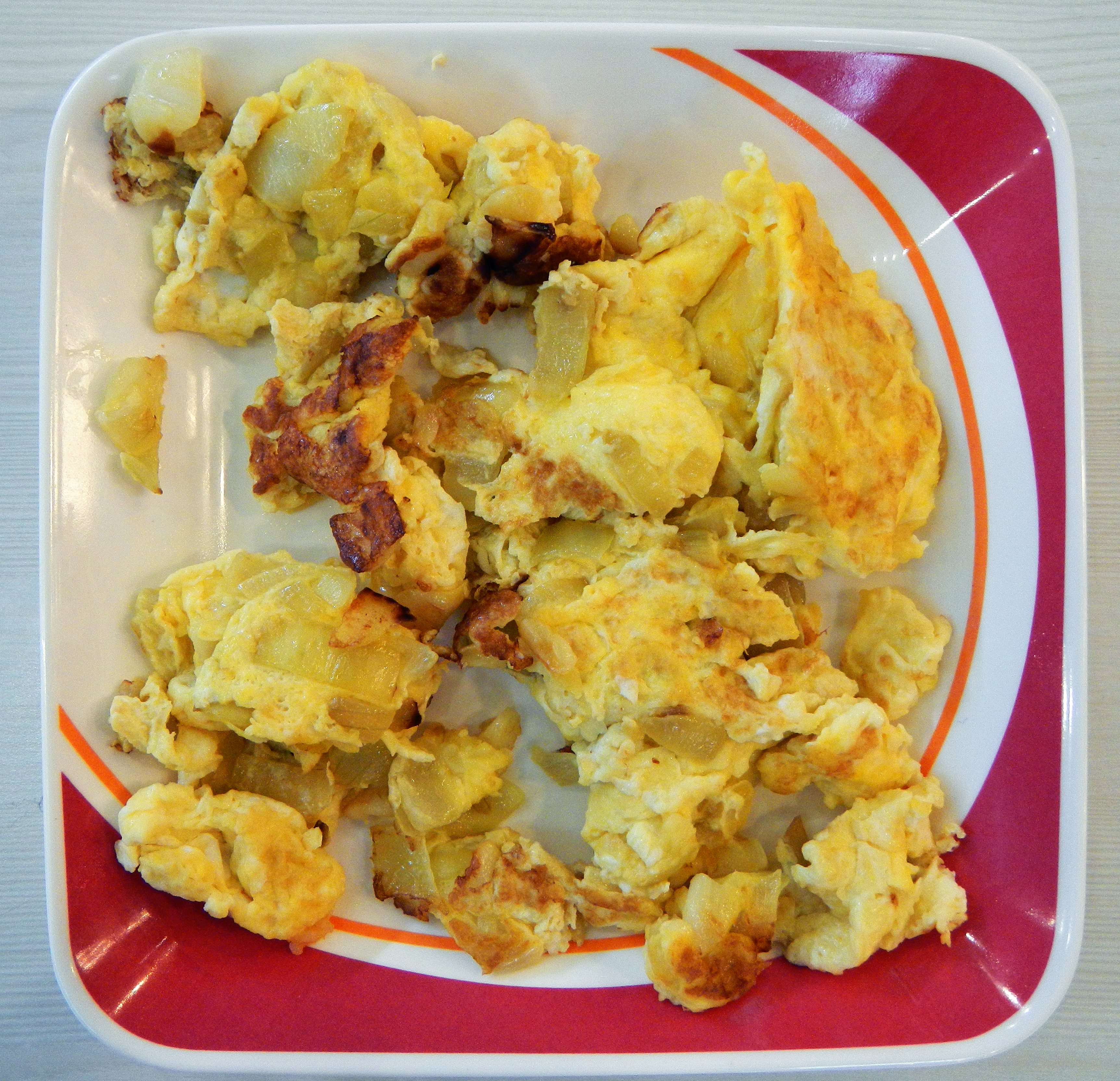 Onions and scrambled eggs - another variant of scrambled eggs eaten in the Philippines. The onions are either fried first then the egg mixture is poured over them to cook, or the onions are mixed with the egg mixture and then poured over the pan.[1]